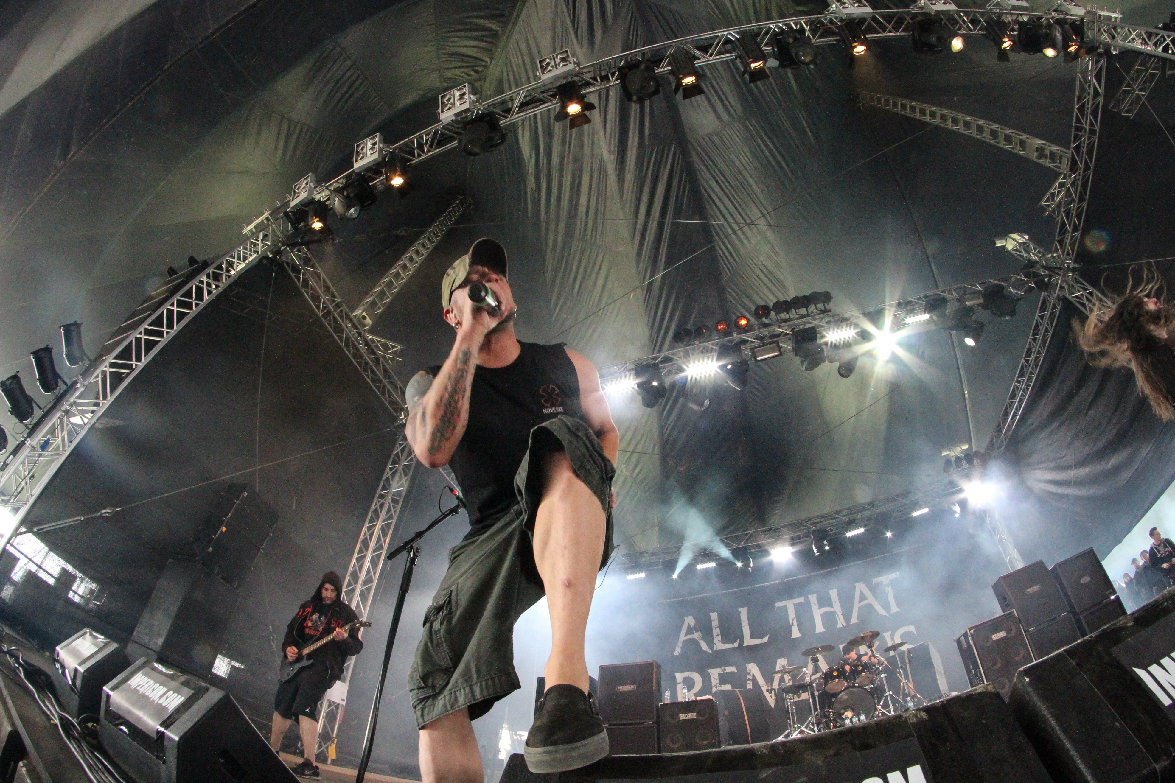 US Band All That Remains at With Full Force Festival 2013 Singer Philip Labonte